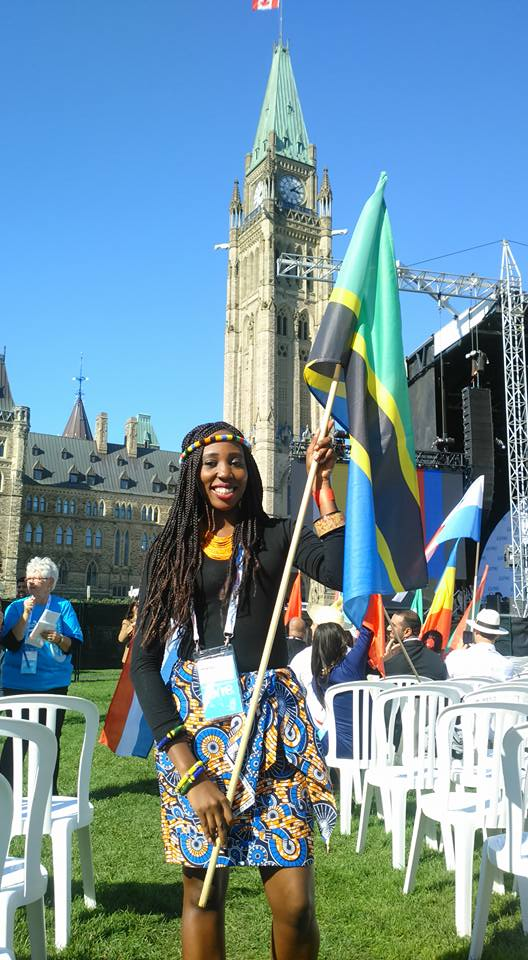 Petrider Paul Tanzanian: Petrider is a Girls rights activist. She works on advocating Gender-based violence in her local communities to ensure gender equality is reached with Children's Dignity Forum Tanzania , Petrder Paul is also a Co-Founder of Youth for Change Tanzaniaa global network of youth activists working in partnership with organisations and governments to tackle gender-based violence and create positive change for girls, boys, young women and young men. Youth For Change launched in 2014 and currently has teams based in Bangladesh, Ethiopia, UK and Tanzania Kiswahili: Petrider Paul ni mwanaharakati wa kutetea haki za wasichana , na kupinga ukatili dhidi